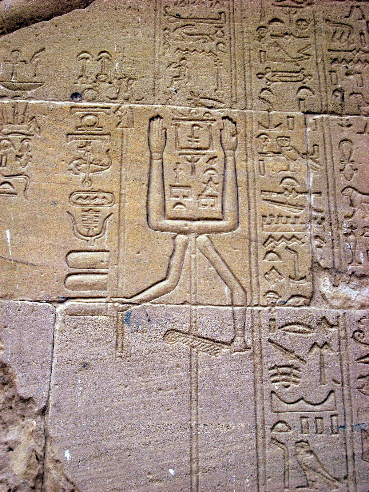 personified Ka, holding sceptre and...feather?